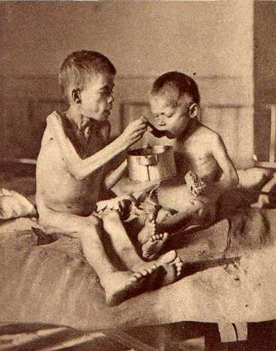 A postcard photograph (rotogravure) of two starving boys: one feeds the other. The boys are in the fatal stages of hunger. They have skeletal limbs and their bellies are swollen (through eating grass, straw, tree bark, worms, and earth). This is postcard number 3 of a set published by Rotogravure SA, Geneva, and sold by in 1922 to raise funds for the Ukrainian famine (number VIII of the set displayed bears the date 28 February 1922). The photographs were taken by Fridtjof Nansen and most likely published earlier as well in 1922 in his pamphlets and addresses for aid to the Russians.[1][2]